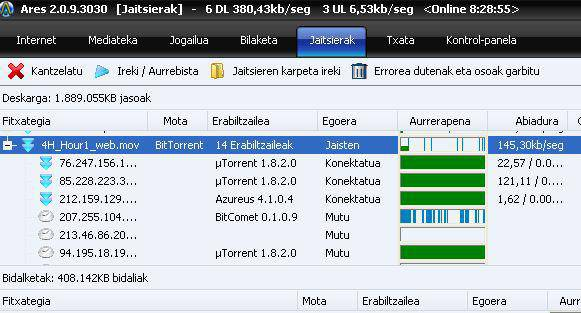 Basque interface for Ares Galaxy, a p2p program